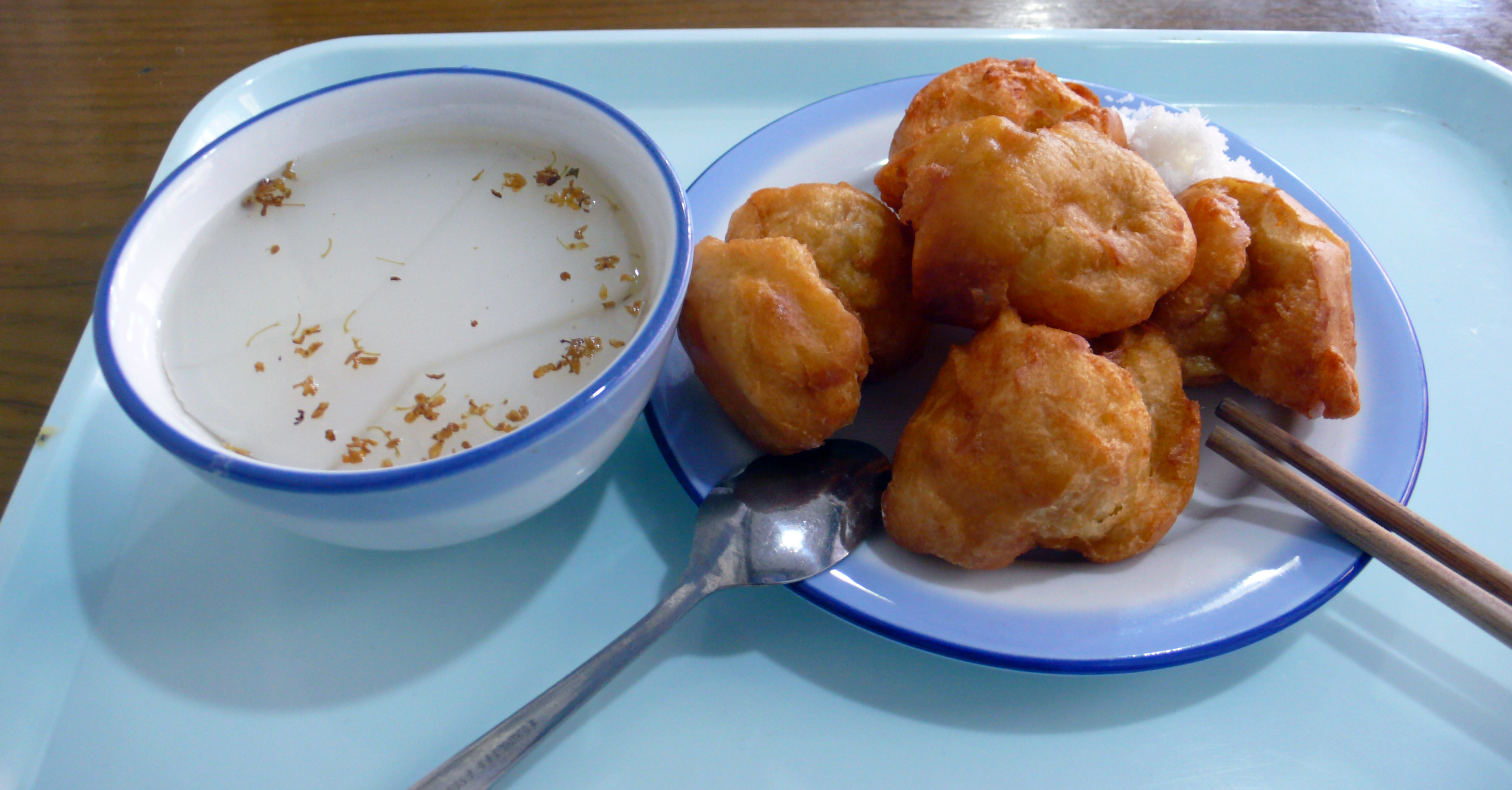 Traditional Beijing snacks. Almond jelly and fried cakes.